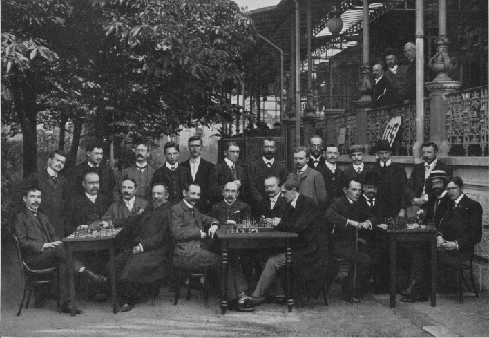 Karlsbad chess tournament 1907 (20. August - 17. September)